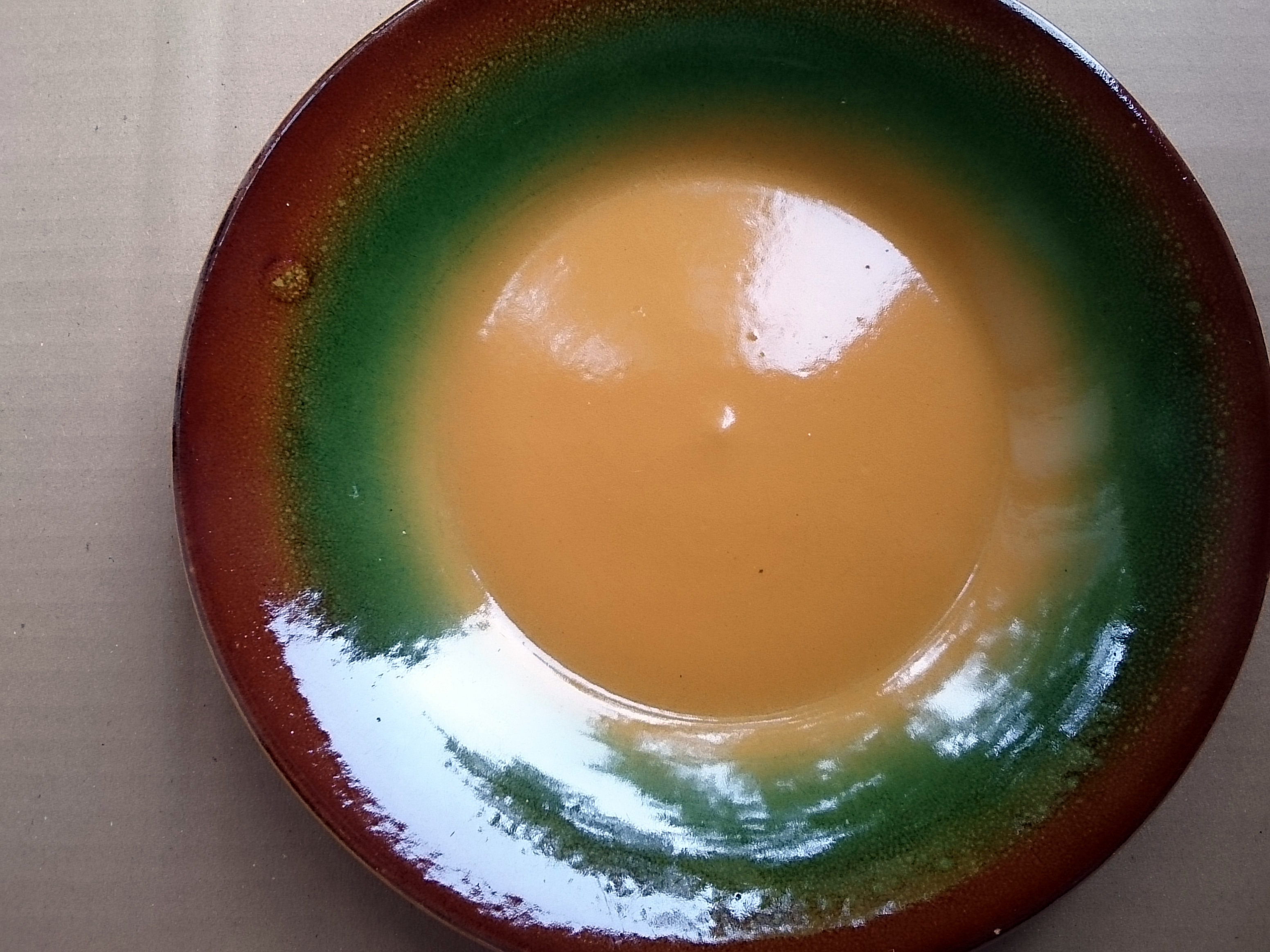 A traditional Latvian plate.